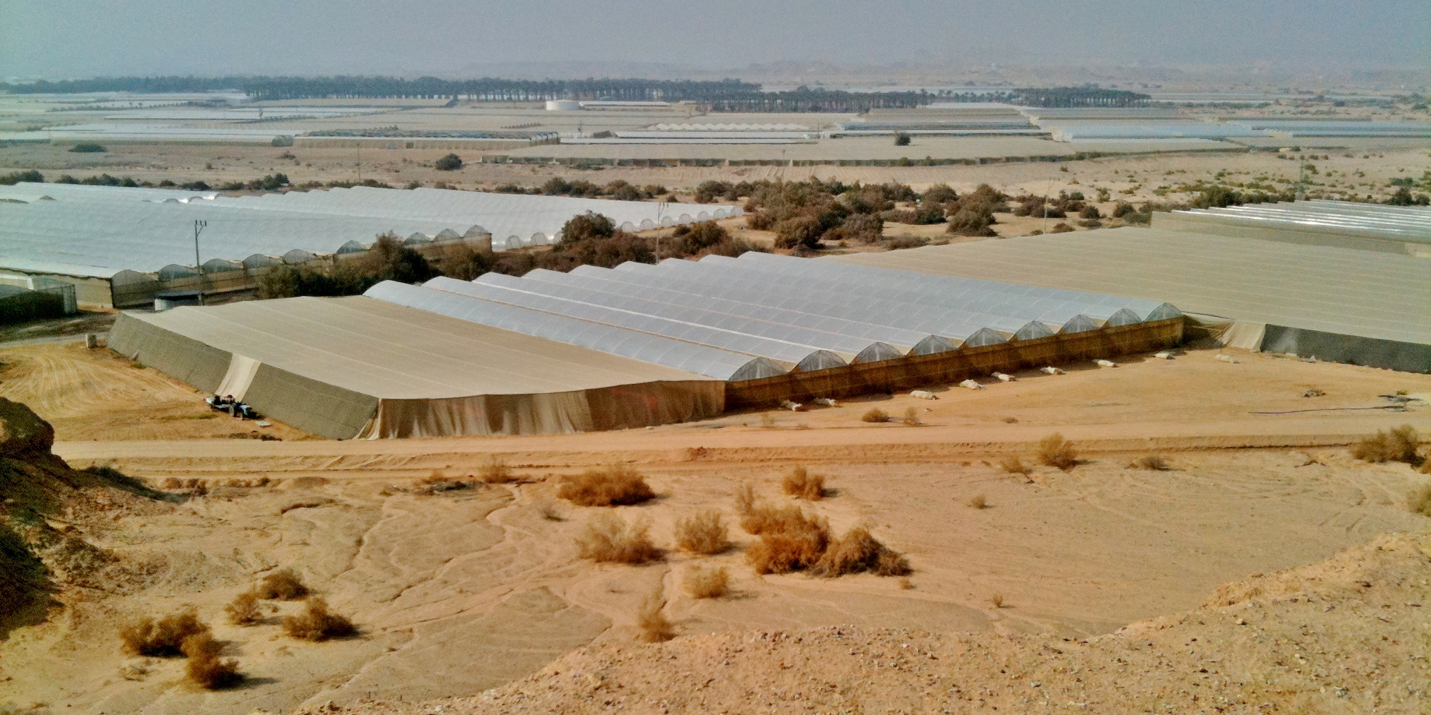 Greenhouses, Israel